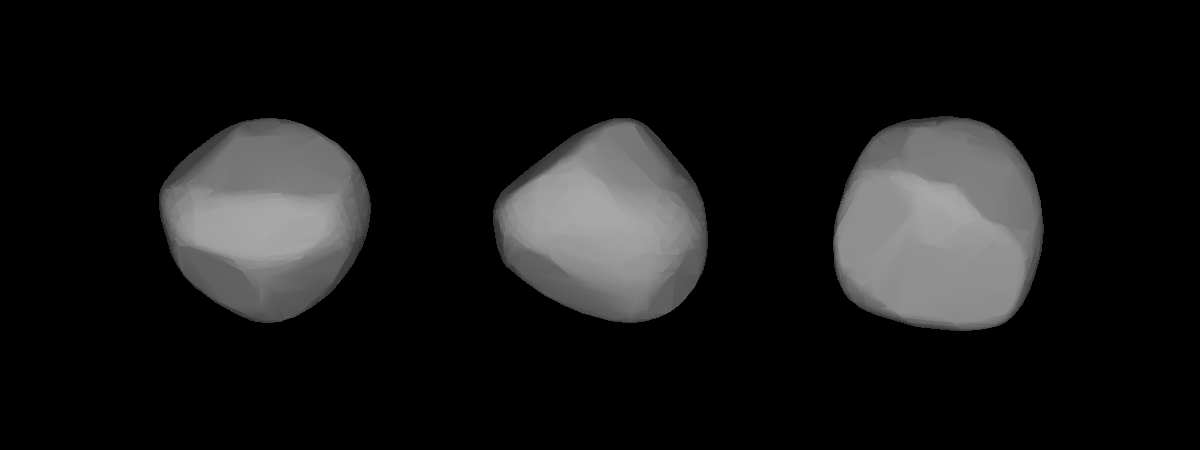 A three-dimensional model of 6 Hebe that was computed using light curve inversion techniques.